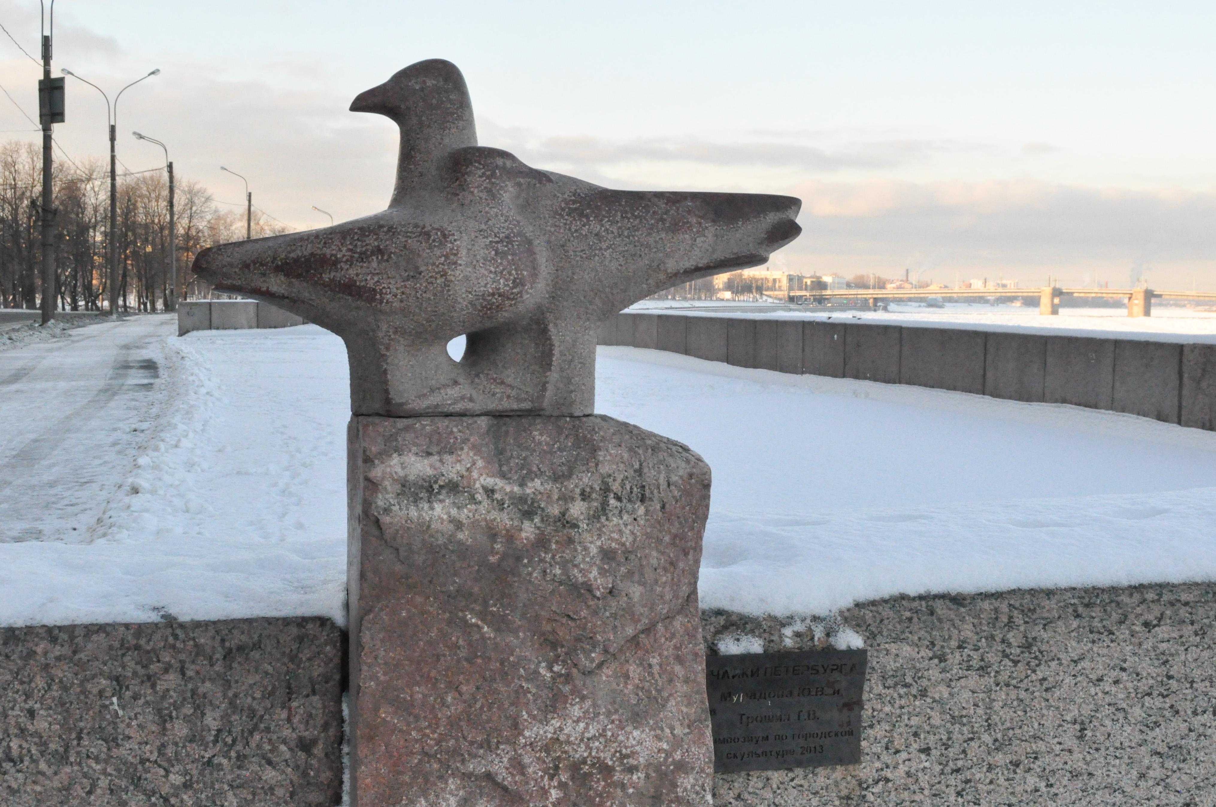 Gulls of Petersburg sculpture